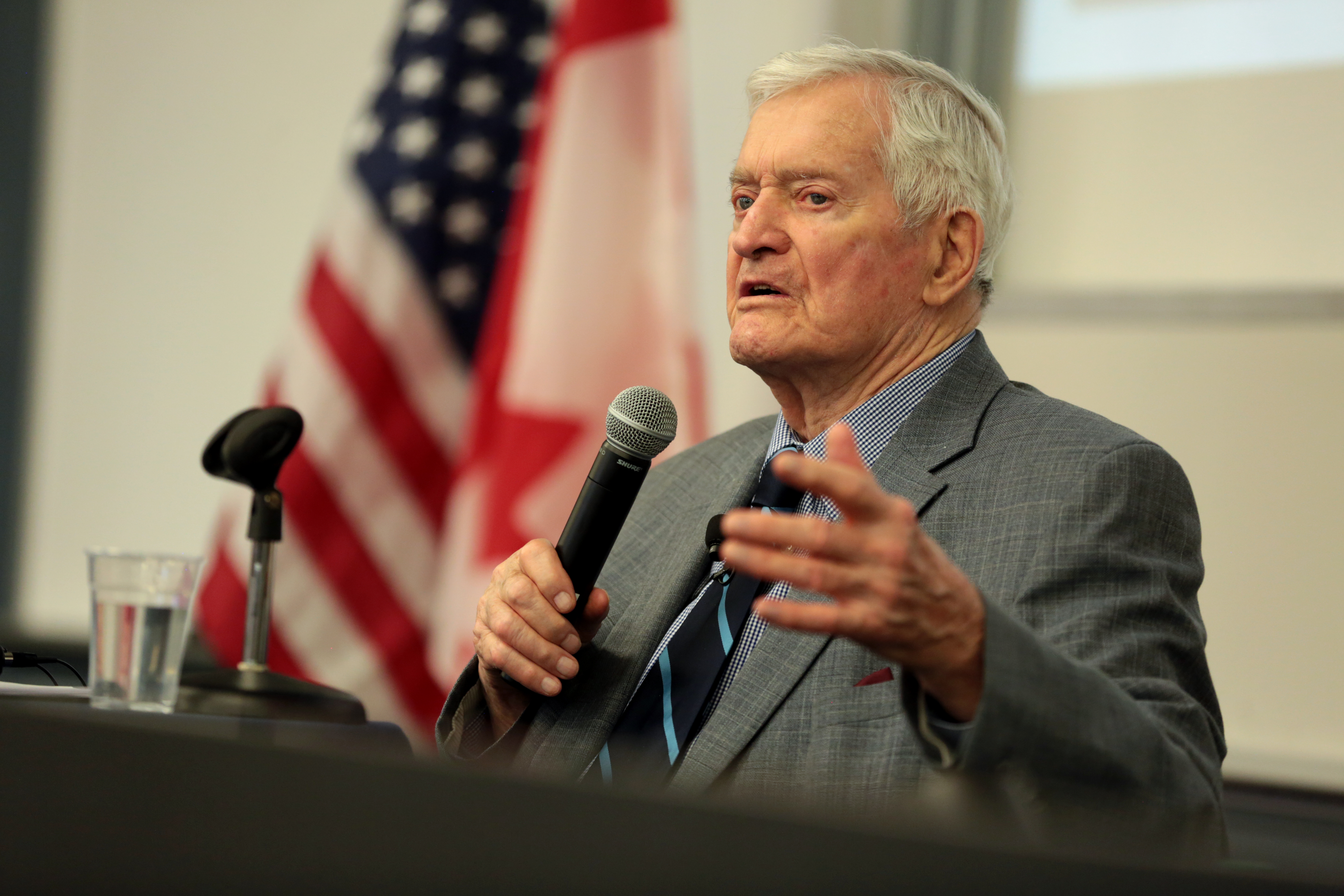 Former Prime Minister of Canada John Turner speaking with attendees at an event hosted by the Thunderbird School of Global Management titled "Fierce and Personal: A View on Leadership, Resiliency and US-Canada Free Trade" at Yount Auditorium at Arizona State University in Glendale, Arizona.